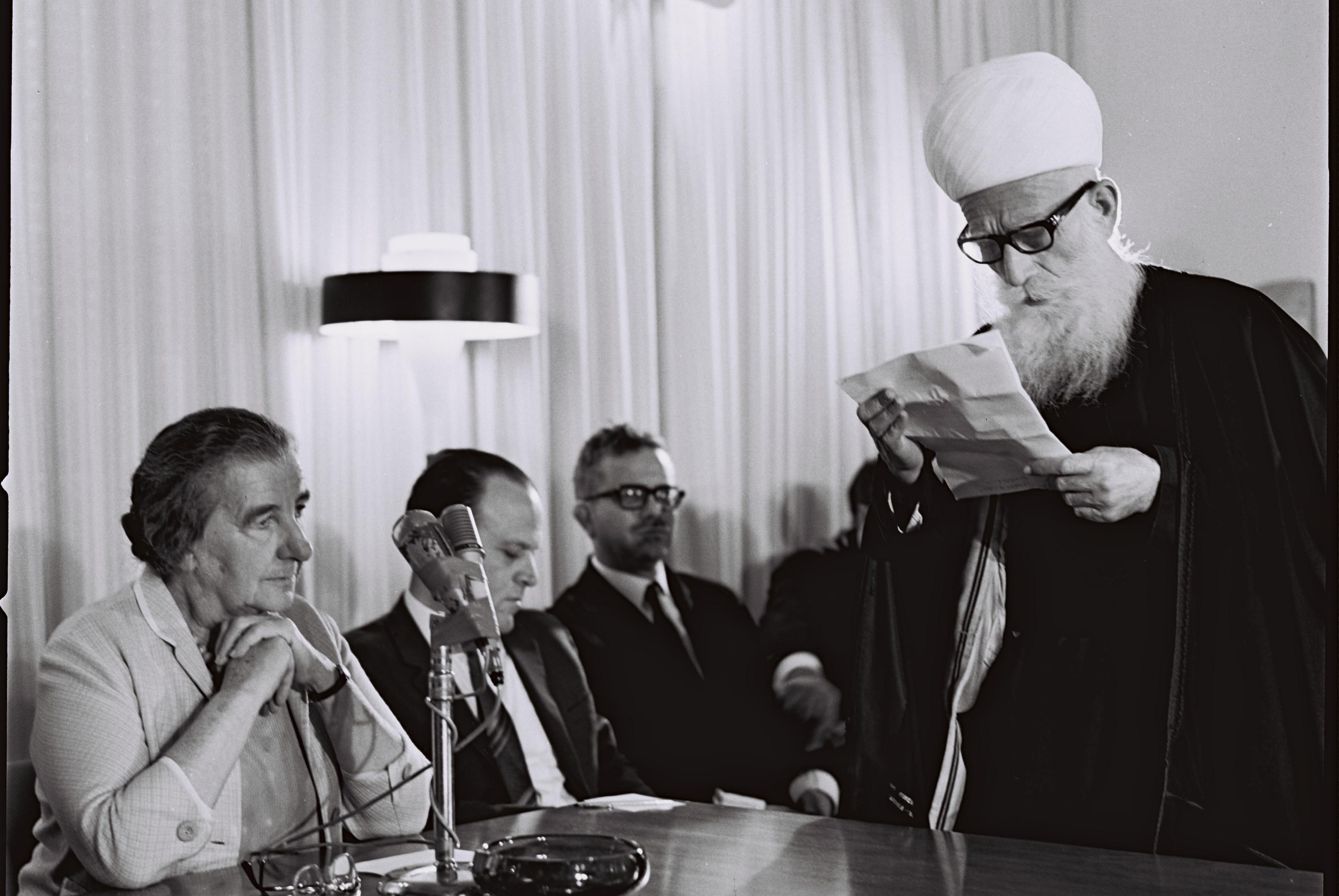 The spiritual head of the Druze community Sheikh Amin Tarif inviting PM Golda Meir to take part in the Nebi Shueib celebrations at Kfar Hittim.